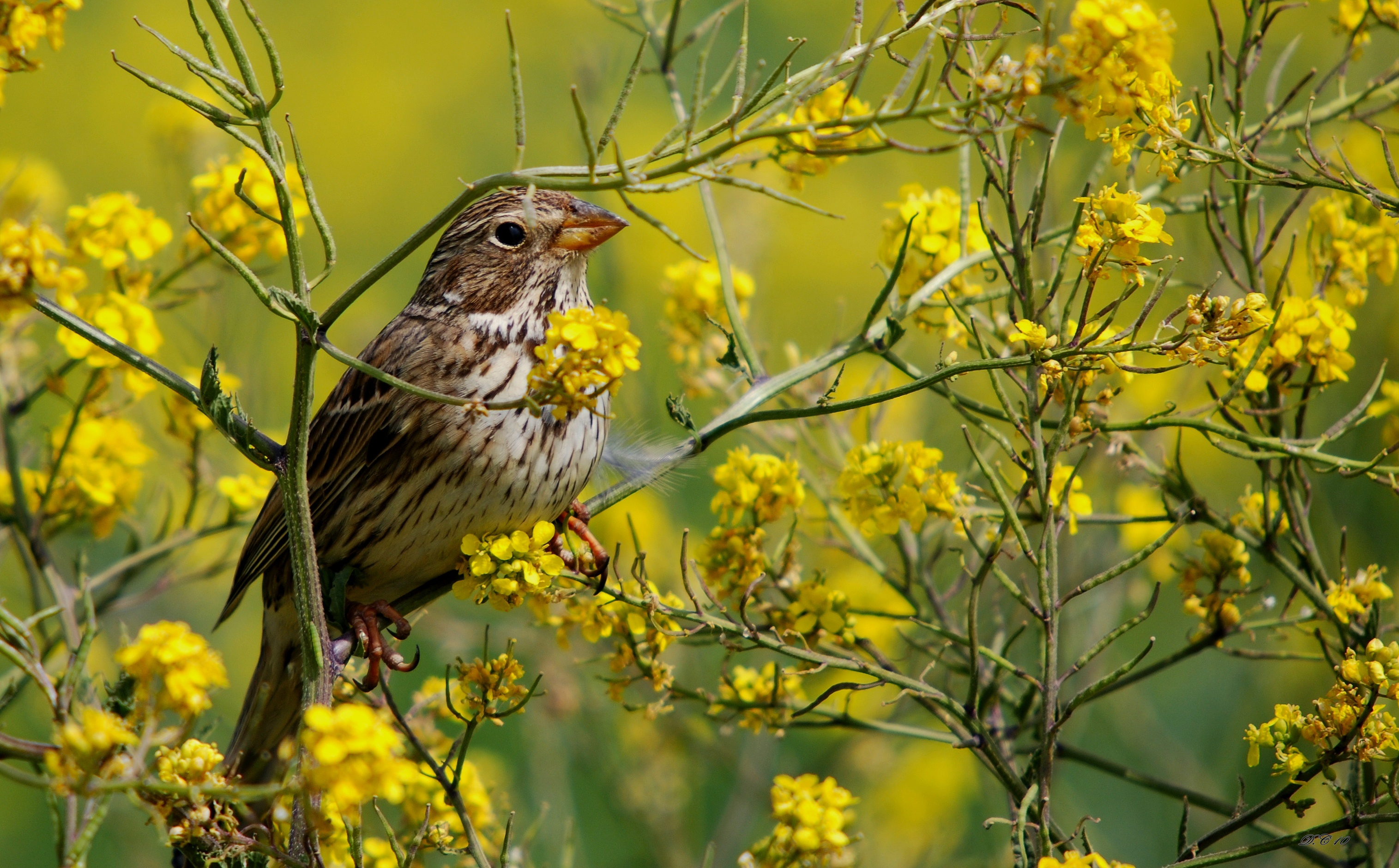 A Corn Bunting amid mustard flowers, in southeastern Turkey Kurdî: Li Gundê Girikê Izêr ji aliyê min ve hatiye kişandin. Nîkon d80/Sîgma 50-500mm